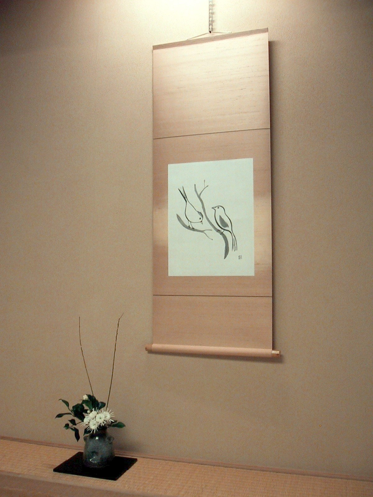 Hanging scroll and Ikebana at the Gorakadan Onsen (